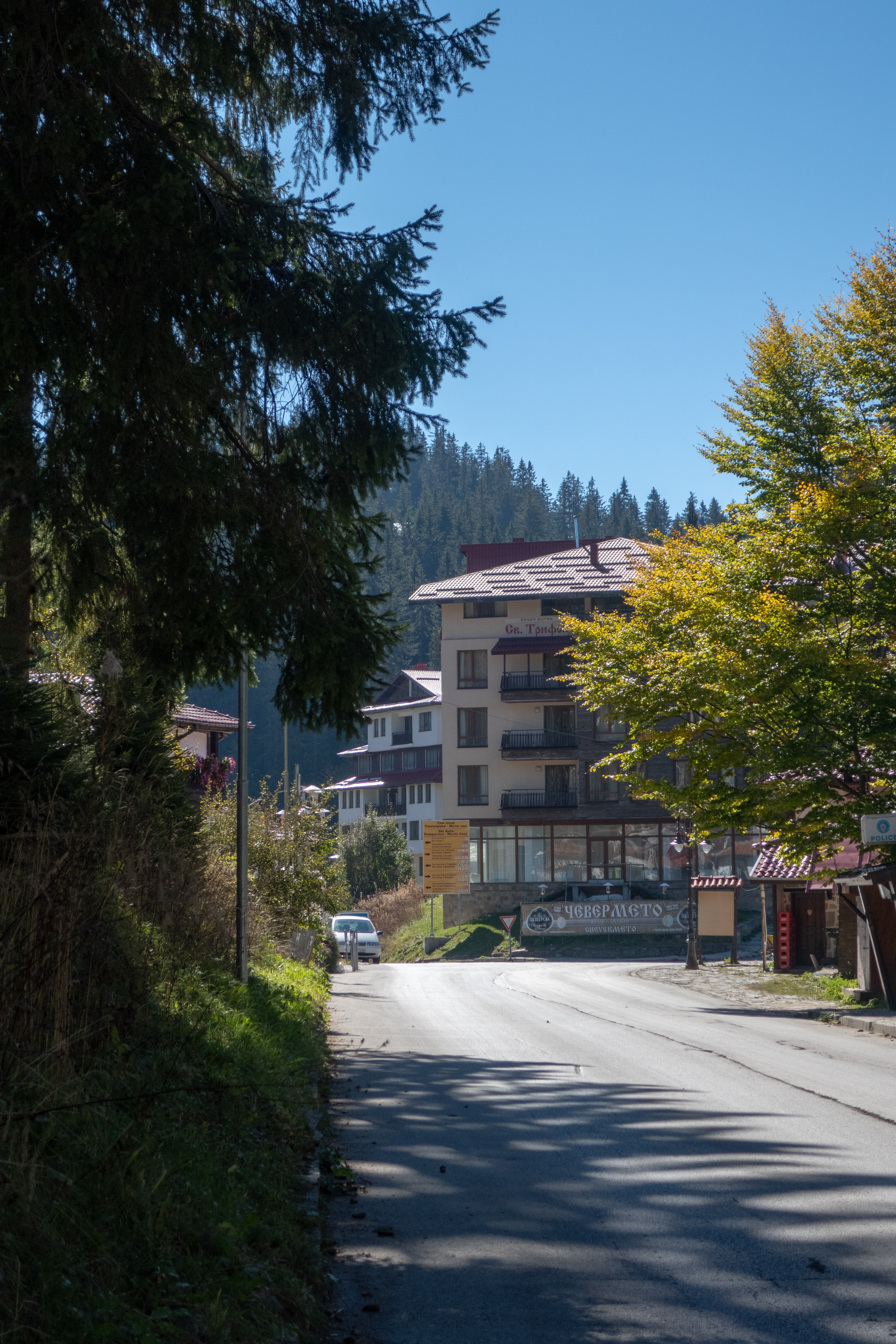 Pamporovo